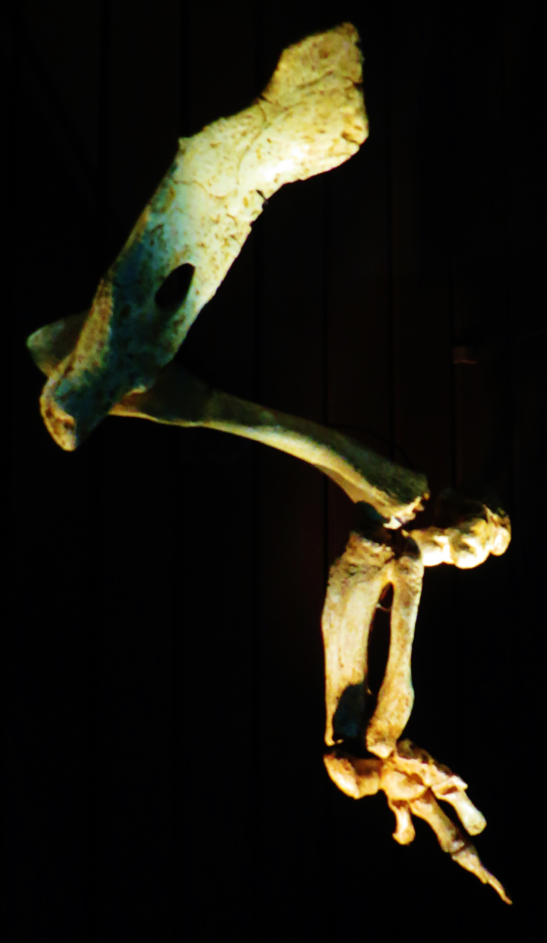 Fossil of Basilosaurus, an extinct whale. Took the photo at Museum Histoire Naturelle, Paris